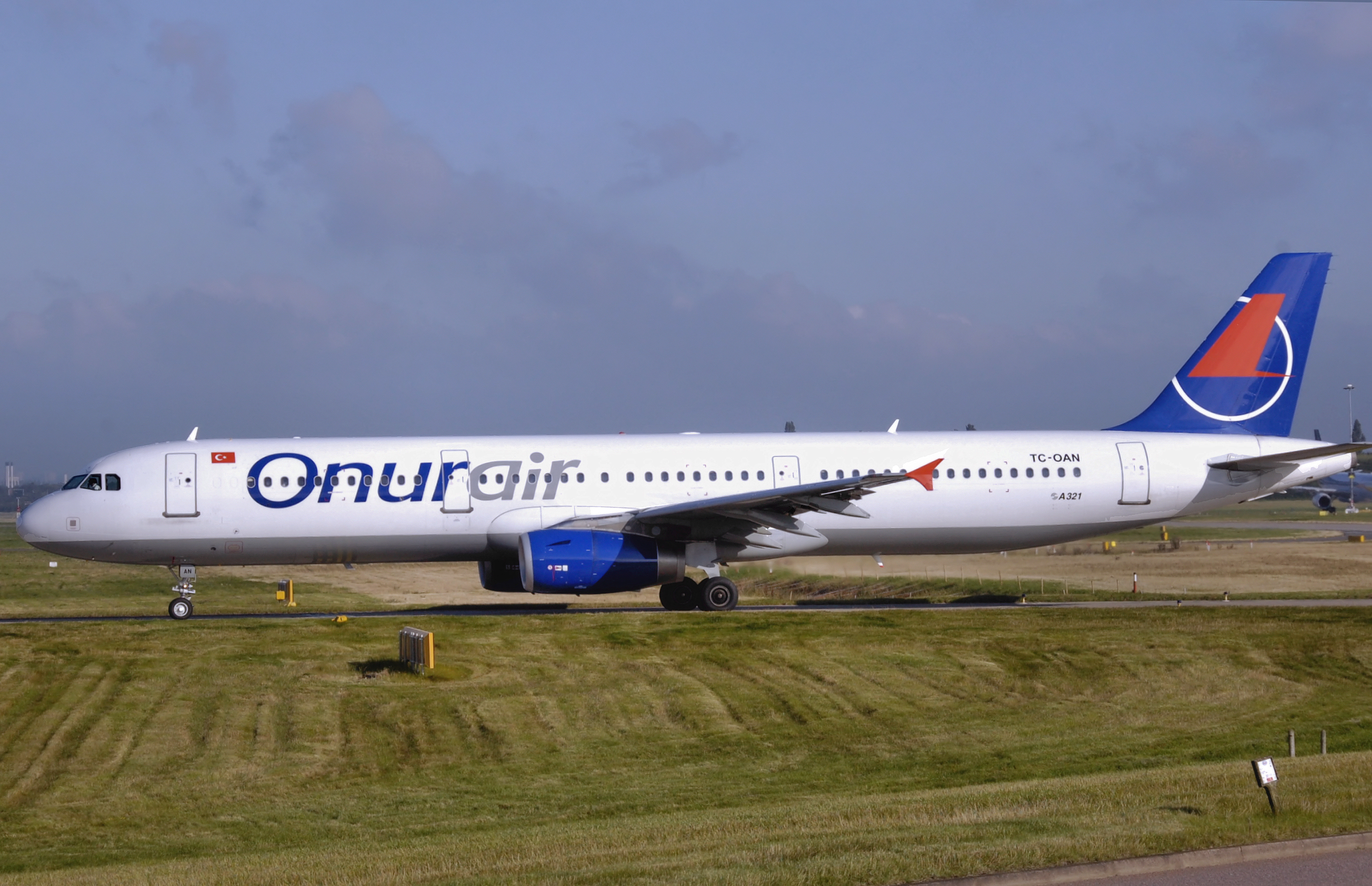 Onur Air Airbus A321-200 (TC-OAN) taxis for take off at Birmingham International Airport, England.